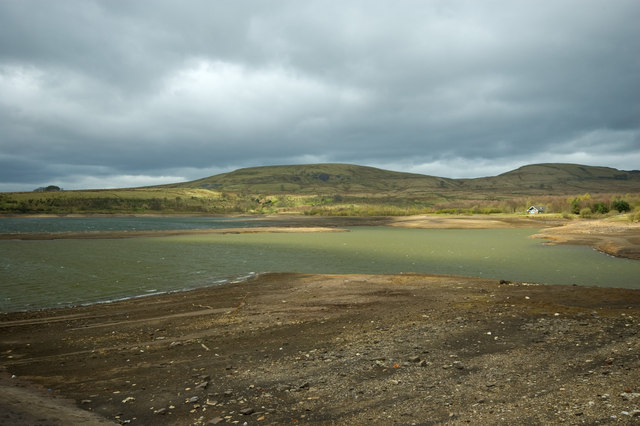 Brown Wardle Brown Wardle Hill (alt 400m) as seen from the far side of Watergrove Reservoir, in the shadow of its south east slopes. The hill to the right is Middle Hill (alt 396m).